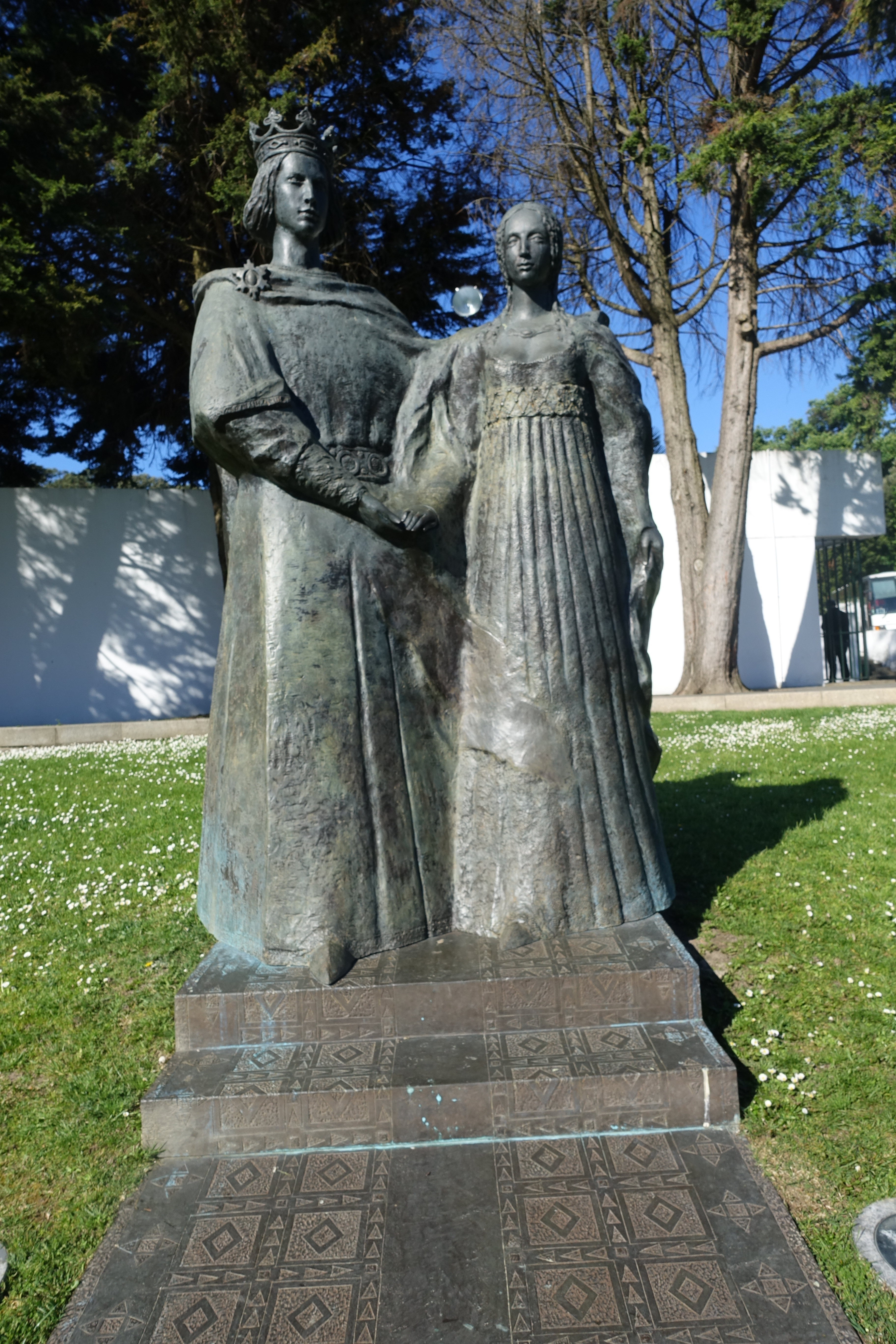 Statue of Ferdinand I of Portugal and Leonor Telles de Menezes in Leça do Balio